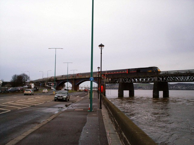 Train Crossing the Tay Rail Bridge The view shows Riverside Drive, Dundee, The River Tay and a Train Crossing the Tay Rail Bridge